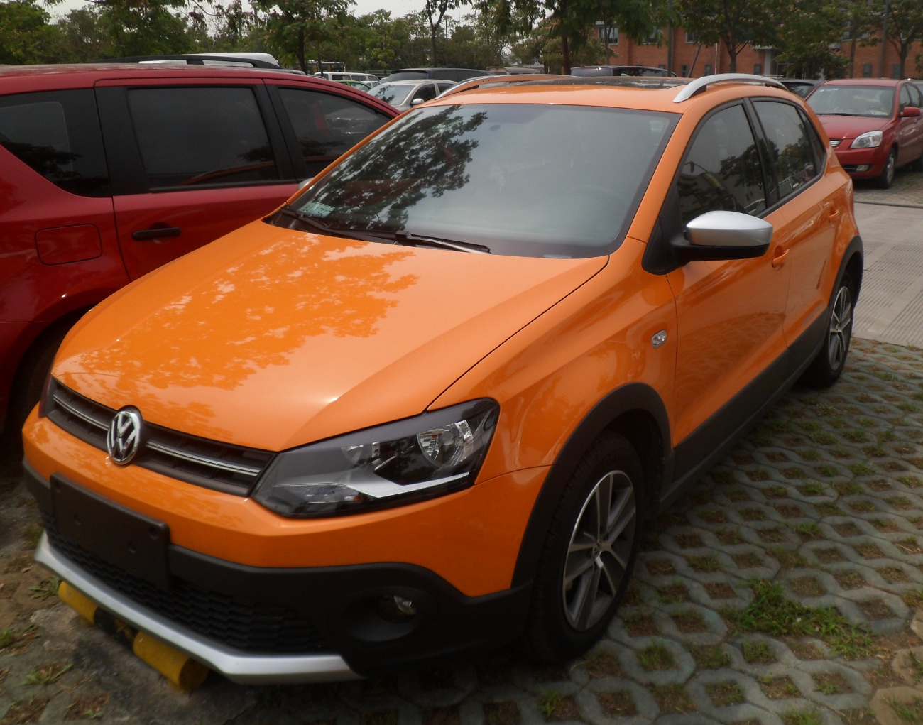 Volkswagen CrossPolo II photographed in Shanghai, China.